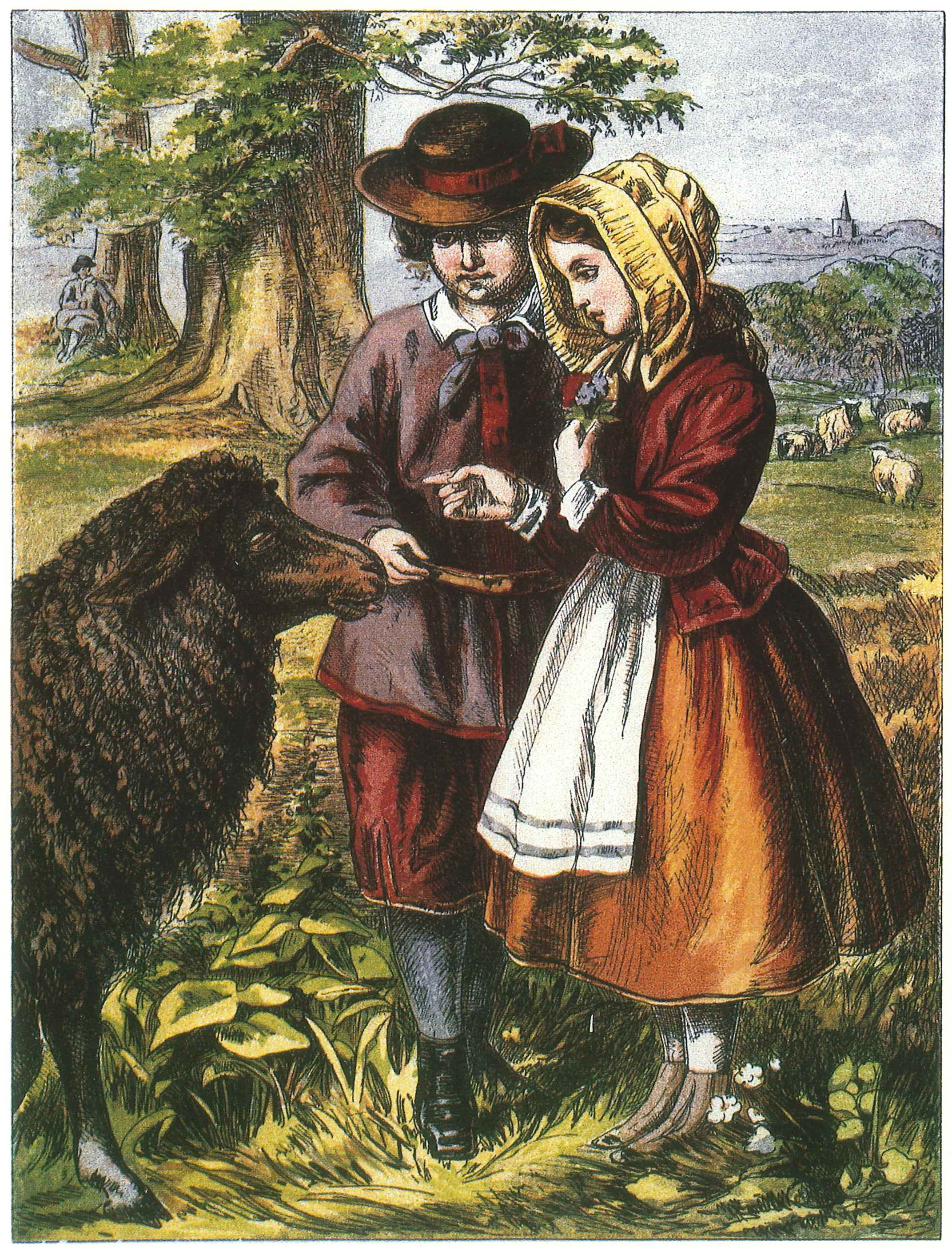 Illustration from "Daddas visor" 1872.